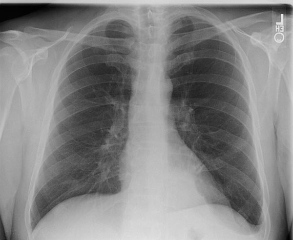 chest radiogram: diagnosis is pulmonary sequestration